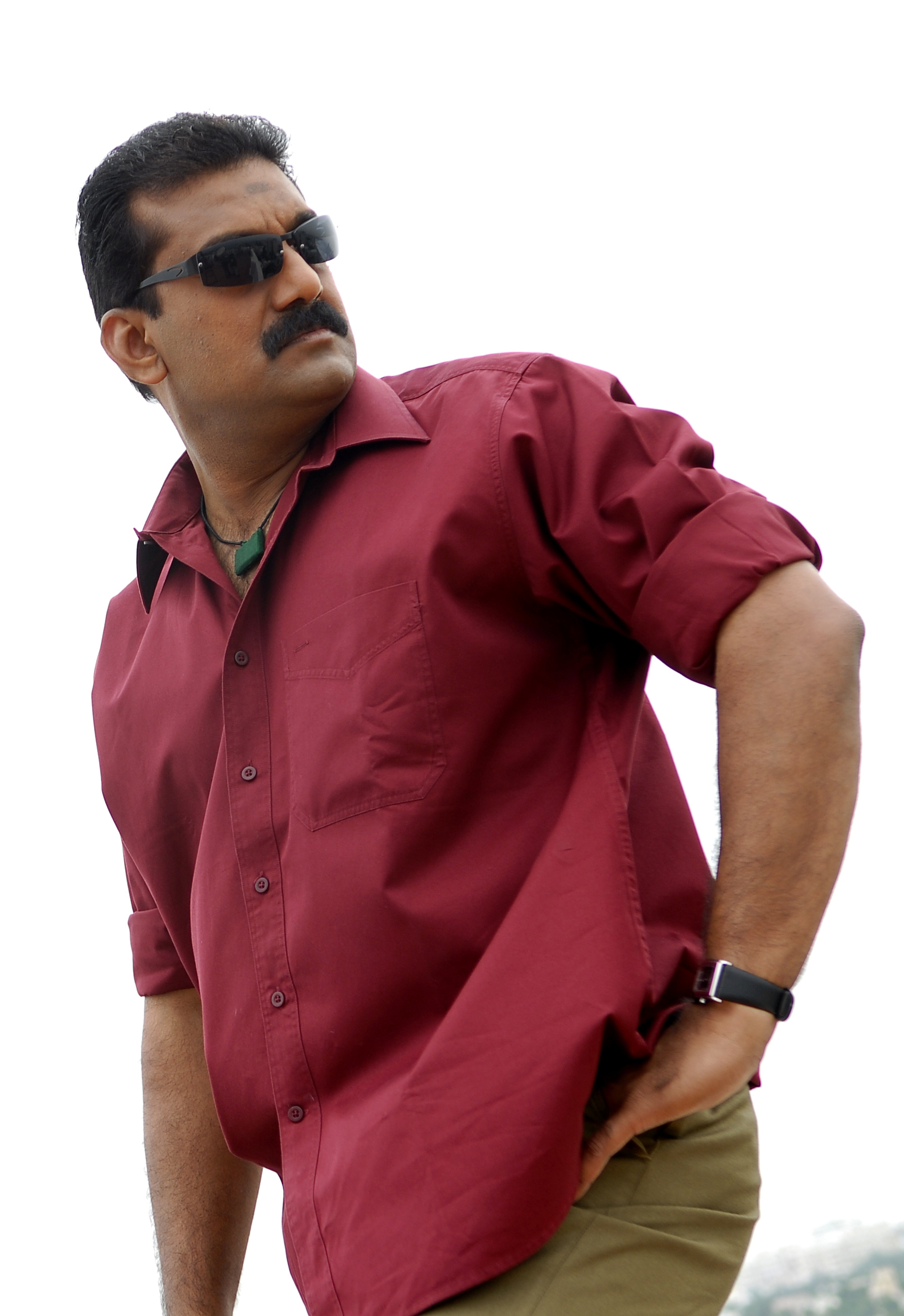 Nepoleon in style - Pokkiri (Tamil Movie)